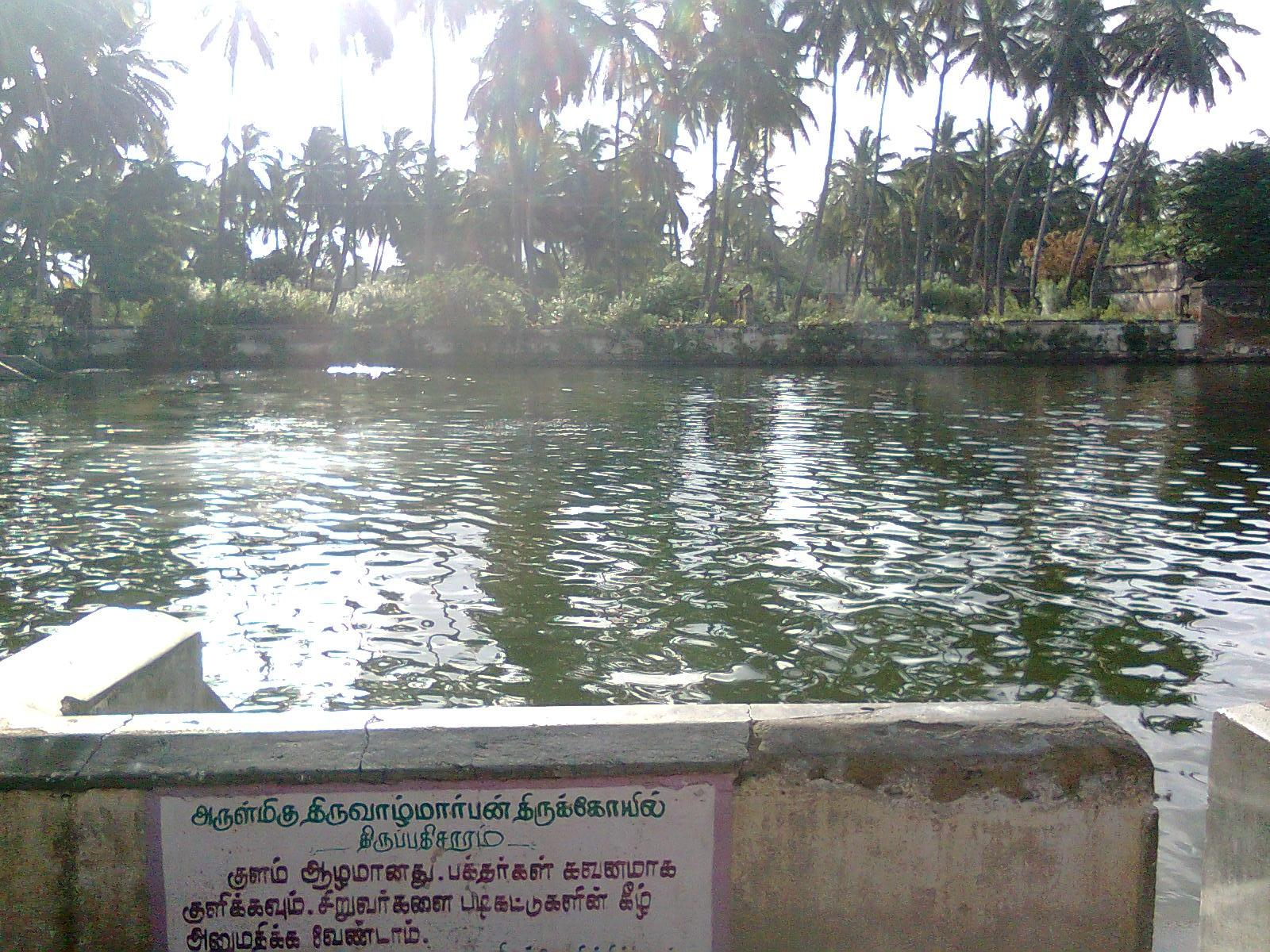 Tirupathi Saram Temple Tank